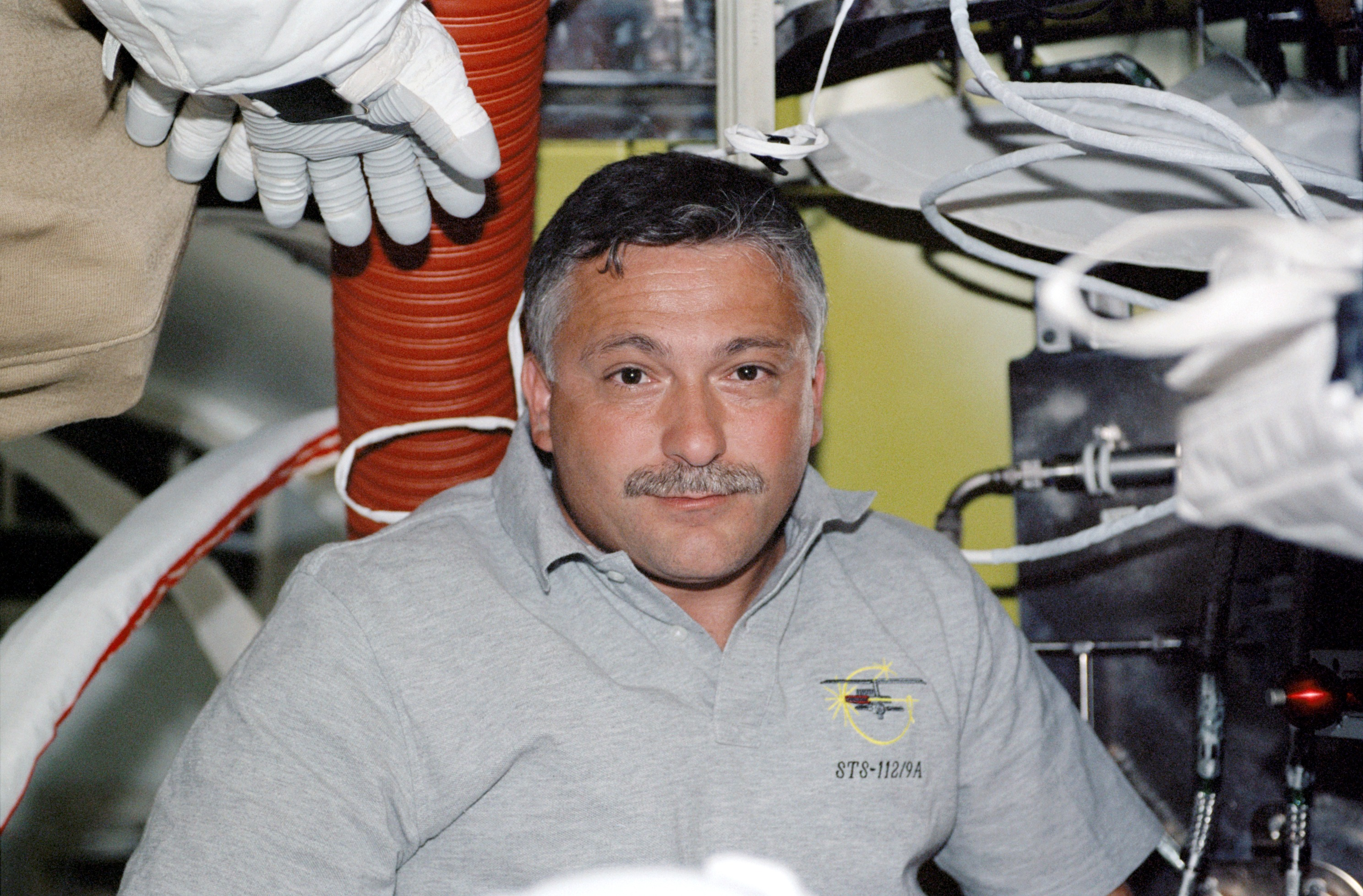 Cosmonaut Fyodor N. Yurchikhin, STS-112 mission specialist representing Rosaviakosmos, is pictured in the Quest Airlock on the International Space Station (ISS).